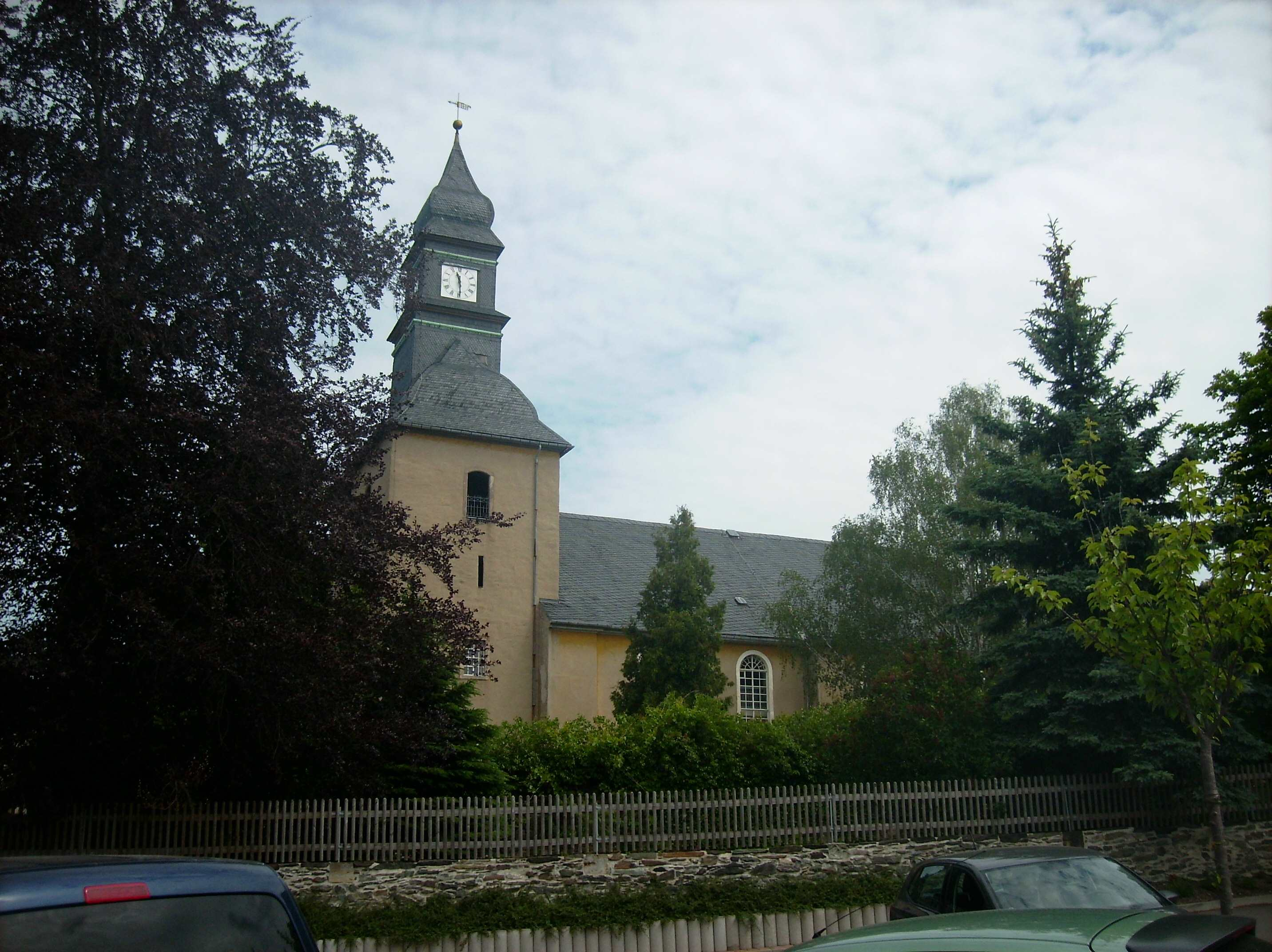 Pappendorf church (Striegistal, Mittelsachsen district, Saxony)